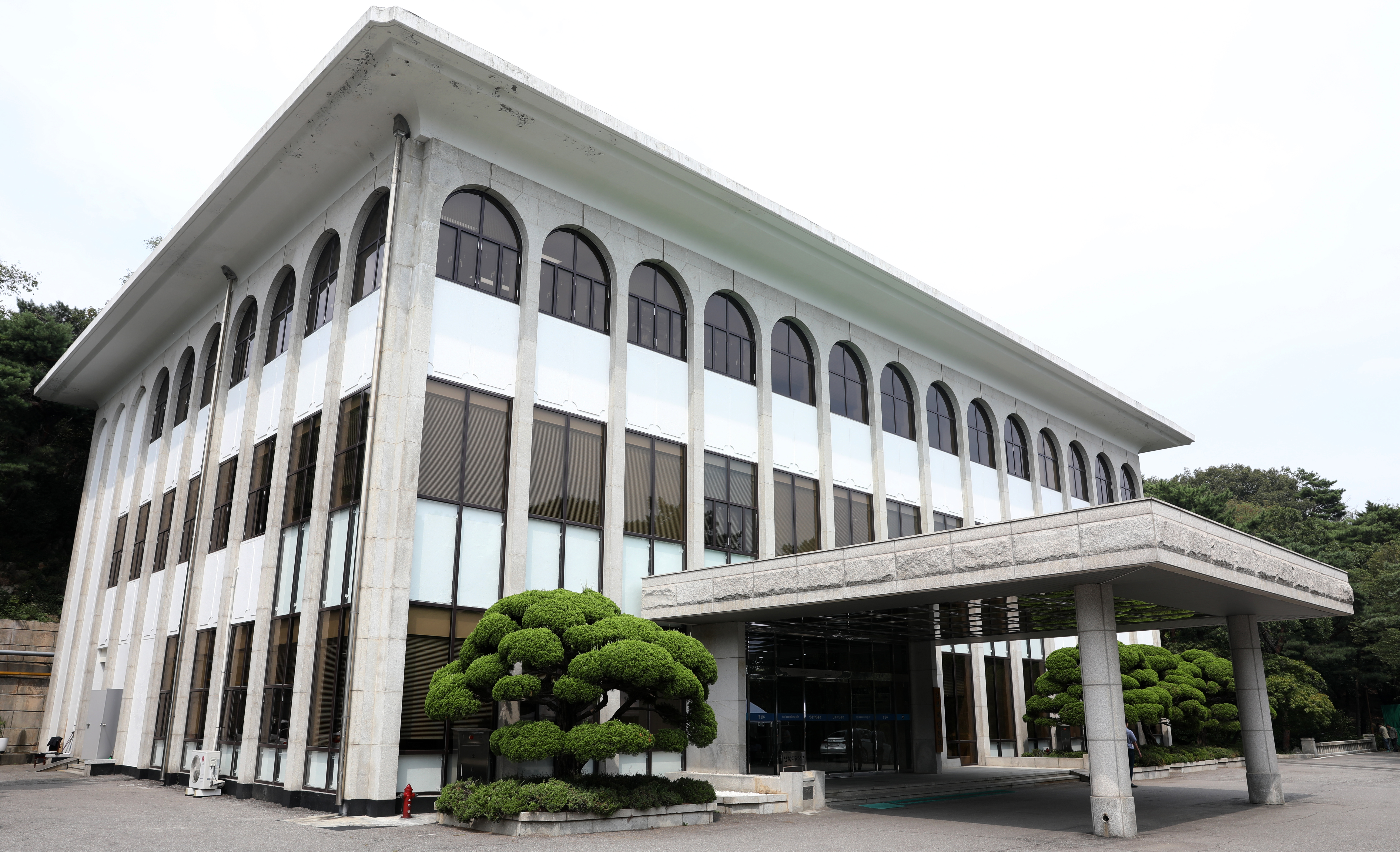 The 21st Inter-Korean Family Reunion Press Center Office of the Inter-Korean Dialogue August 20, 2018 Jongro-Ku, Seoul Ministry of Culture, Sports and Tourism Korean Culture and Information Service ( Official Photographer : Kim sun joo This official Republic of Korea photograph is being made available only for publication by news organizations and/or for personal printing by the subject(s) of the photograph. The photograph may not be manipulated in any way. Also, it may not be used in any type of commercial, advertisement, product or promotion that in any way suggests approval or endorsement from the government of the Republic of Korea. 제21차 이산가족 상봉행사 프레스센터 남북회담본부 2018-08-20 서울특별시 종로구 문화체육관광부 해외문화홍보원 코리아넷 김순주